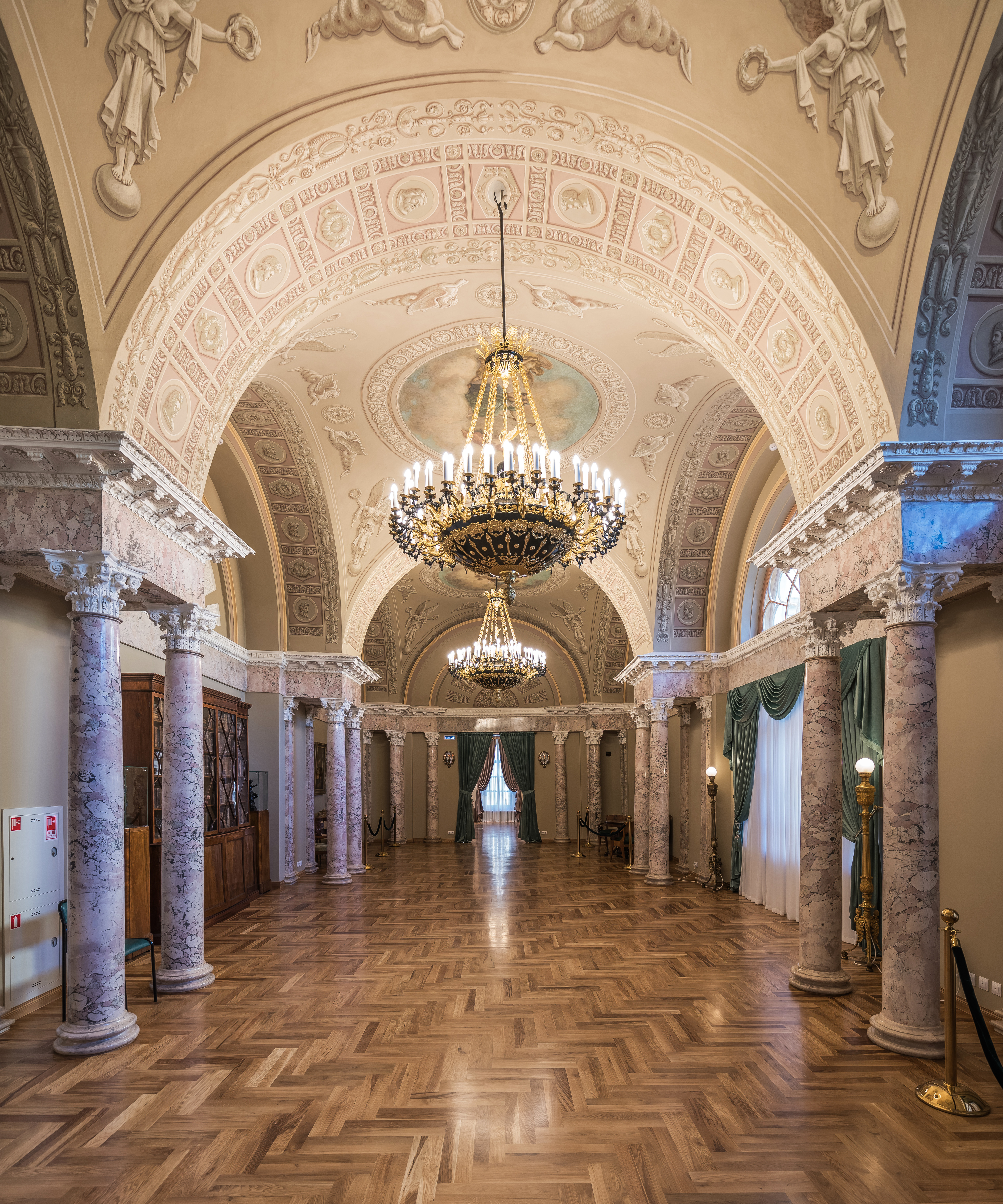 Interior of the former English Club building (Museum of Contemporary History of Russia) in Moscow, Russia